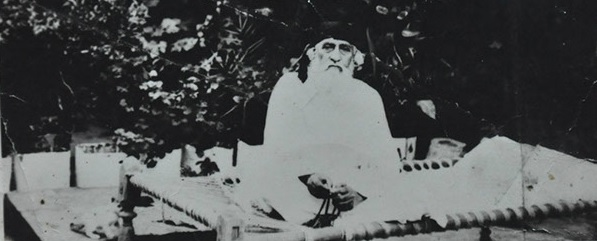 peer Meher Ali Shah in old age